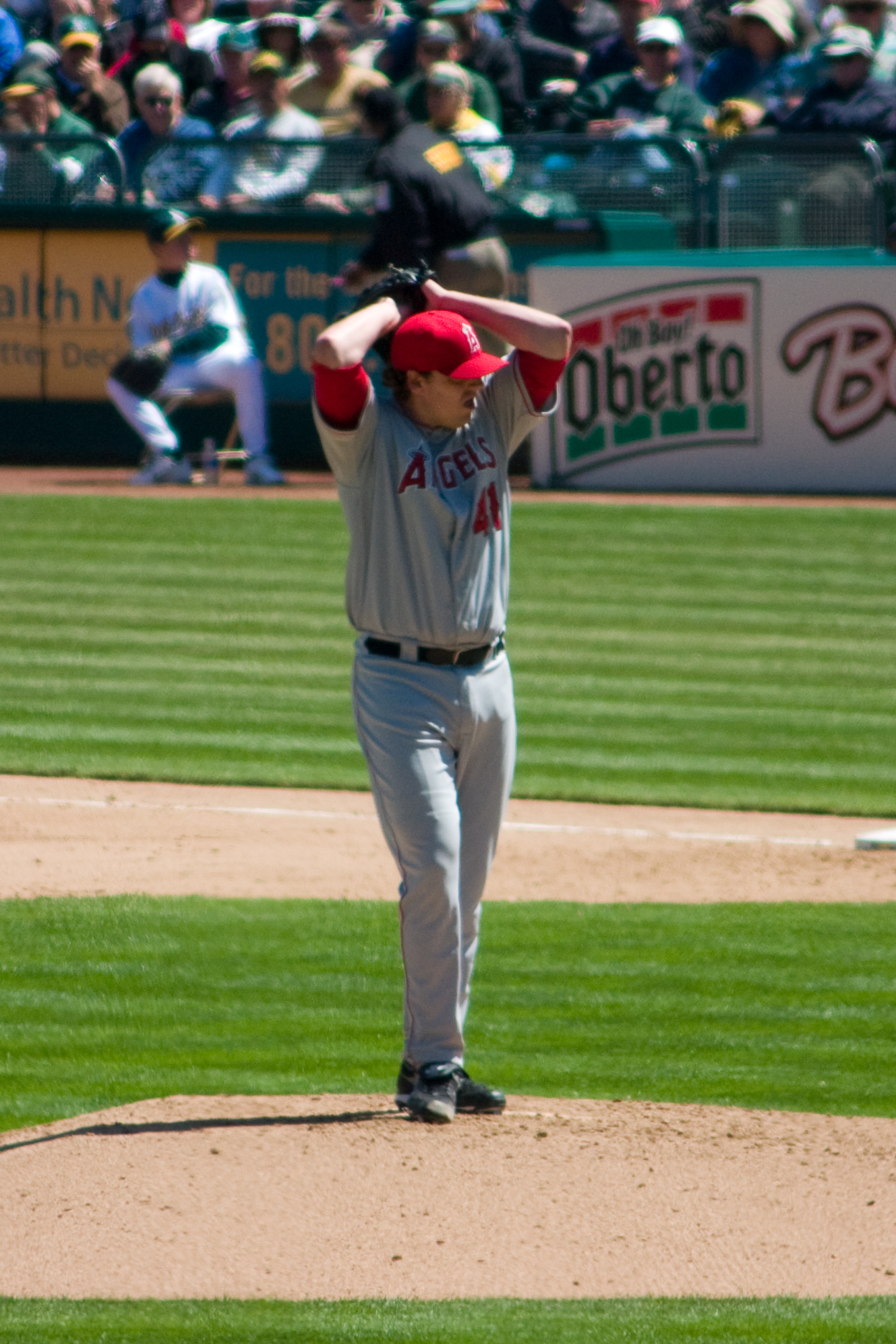 MLB Pitcher John Lackey pitching against the Oakland Athletics at Oakland Coliseum